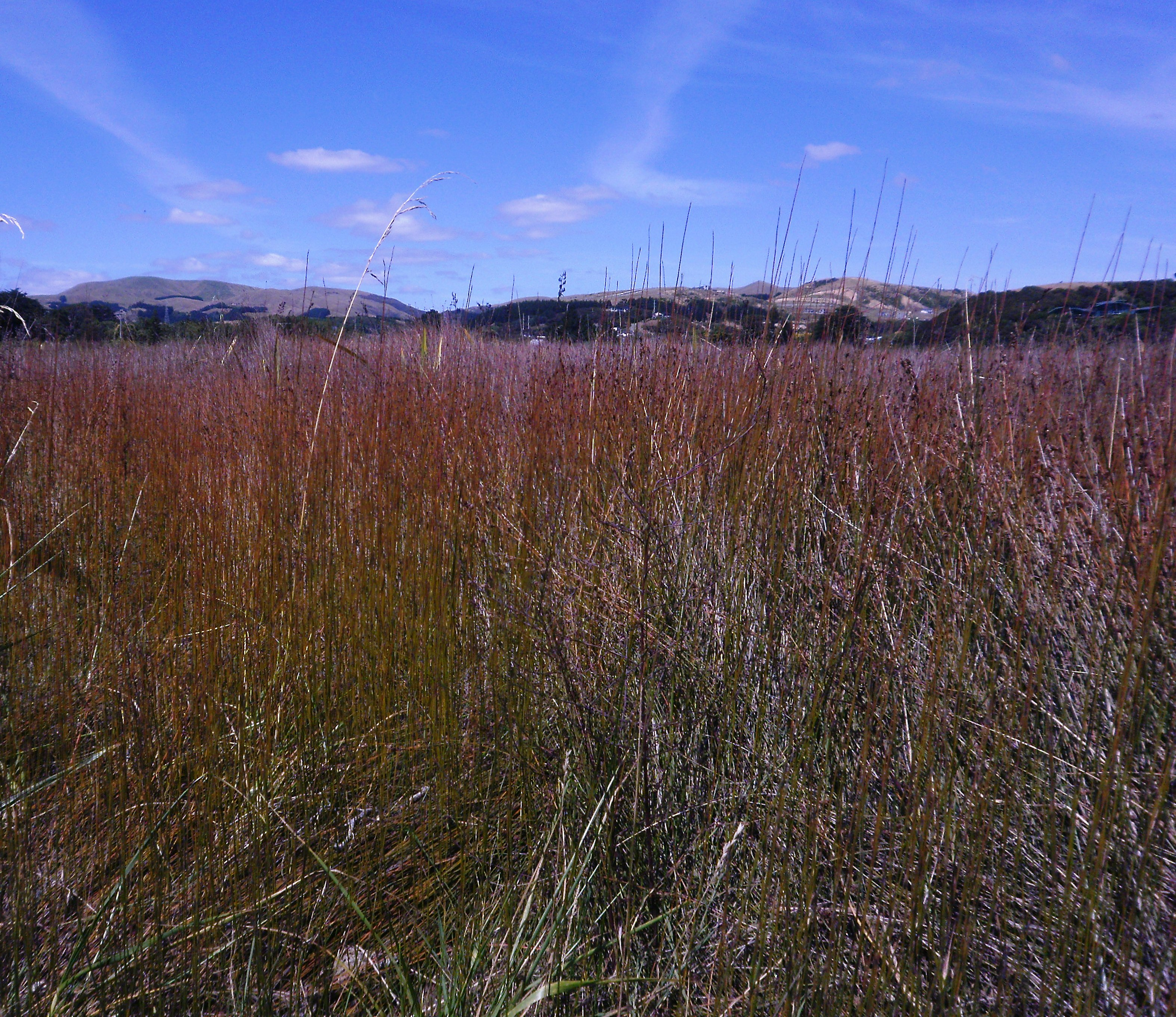 Apodasmia similis, or jointed rush pictured at Pauatahnaui Wildlife Reserve, Porirua, New Zealand.